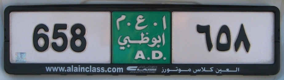 Back license plate from Abu Dhabi, UAE